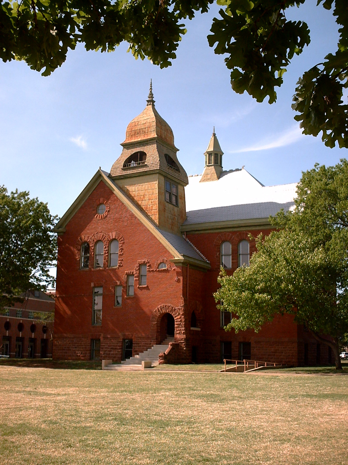 Old Central at Oklahoma State University - Stillwater, the oldest building on campus. Photo taken April 22, 2006.